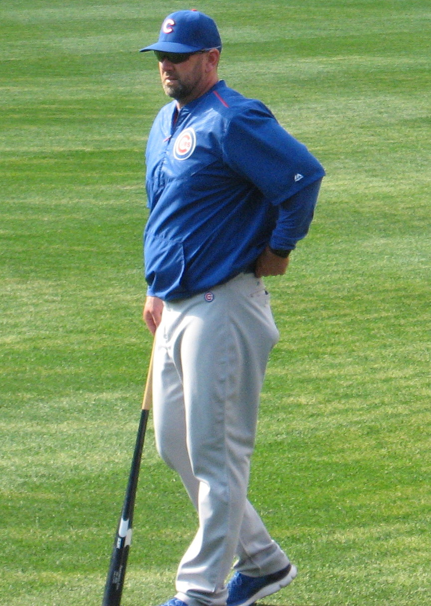 Brandon Hyde of the Chicago Cubs, June 30, 2016.